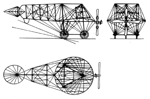 A schematic of "Spheroplane 1" (Сфероплан №1), designed and built by Anatoly Georgievich Ufimtsev (Анатолий Георгиевич Уфимцев), circa 1910